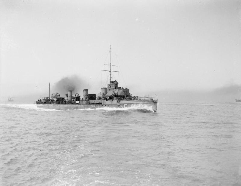 Photograph of British Fairfield 30-knot Gipsy class (later 'C' class) destroyer HMS Falcon.